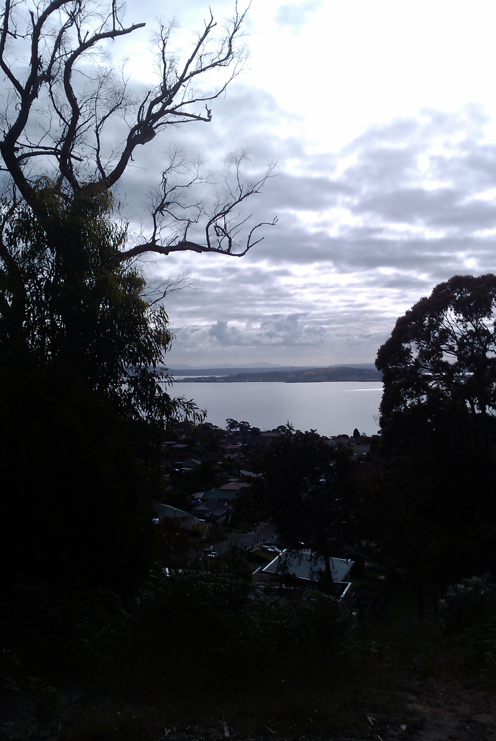 Maranoa Heights overlooking Blackman's Bay, Kingston, Tasmania